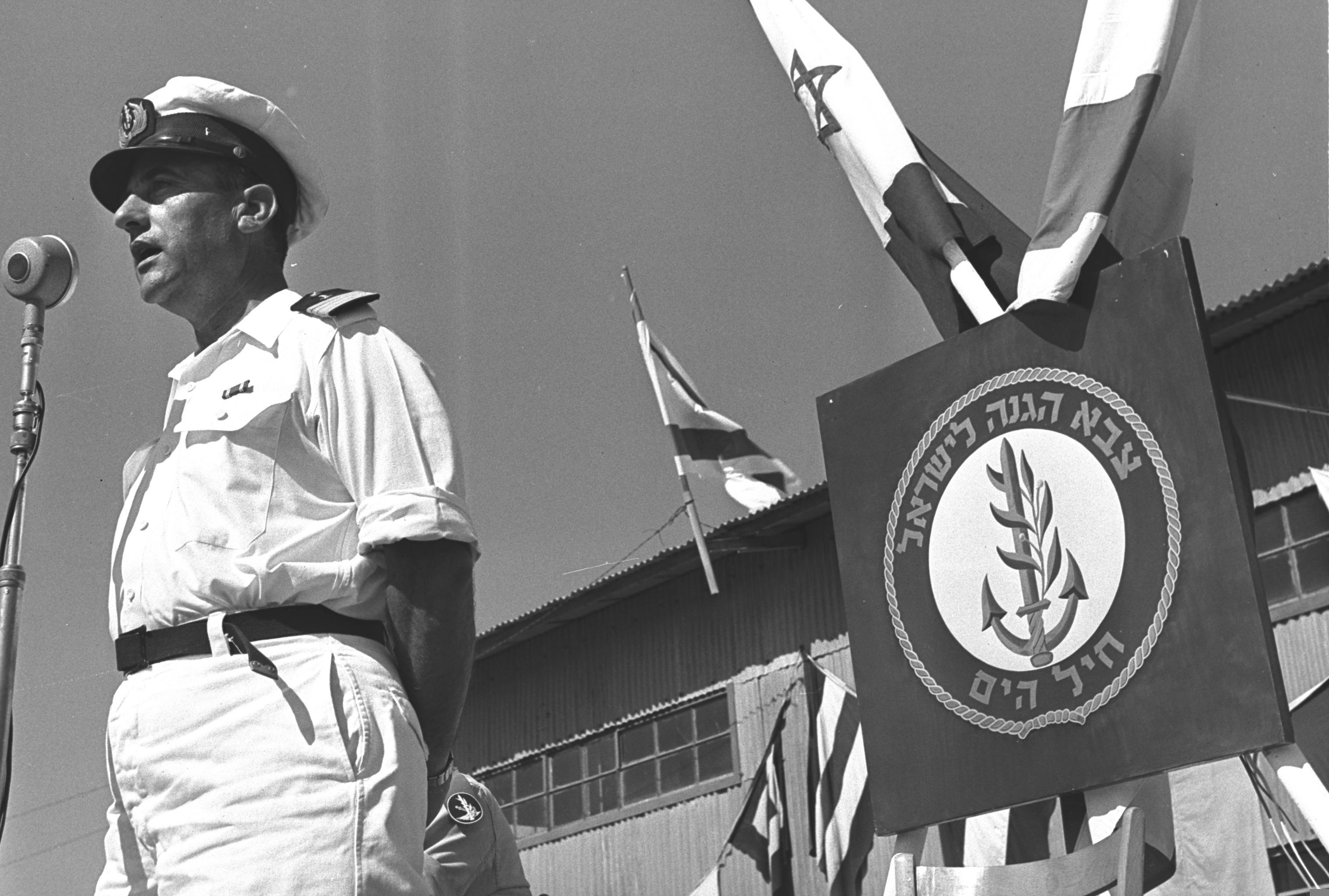 Shmuel Tankos ARMY NAVY. ALUF MISHNE TANKUS SHMUEL O.C. ISRAEL NAVY, SPEAKS AT CADET GRADUATION CEREMONY.